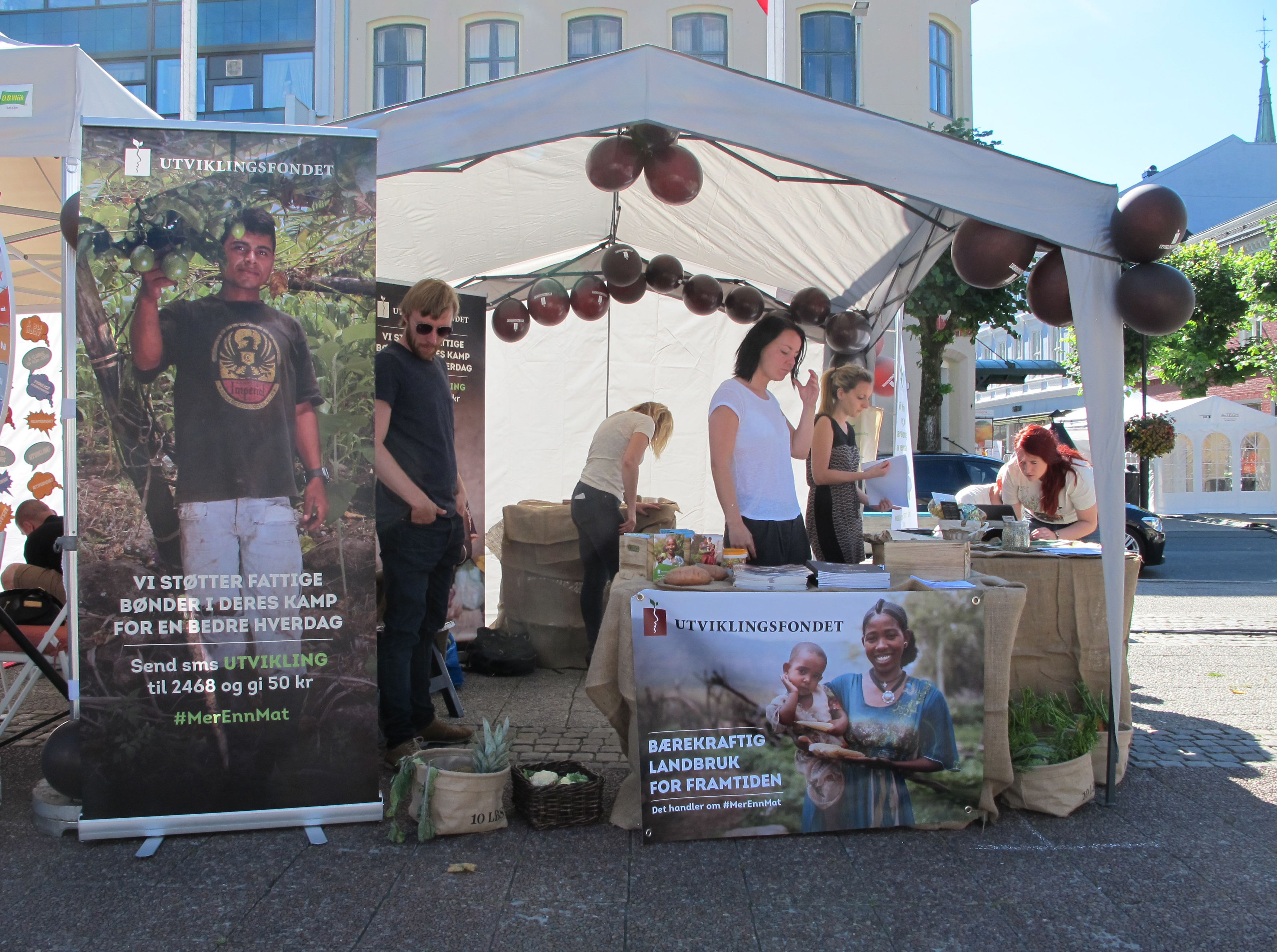 Arendalsuka 2013